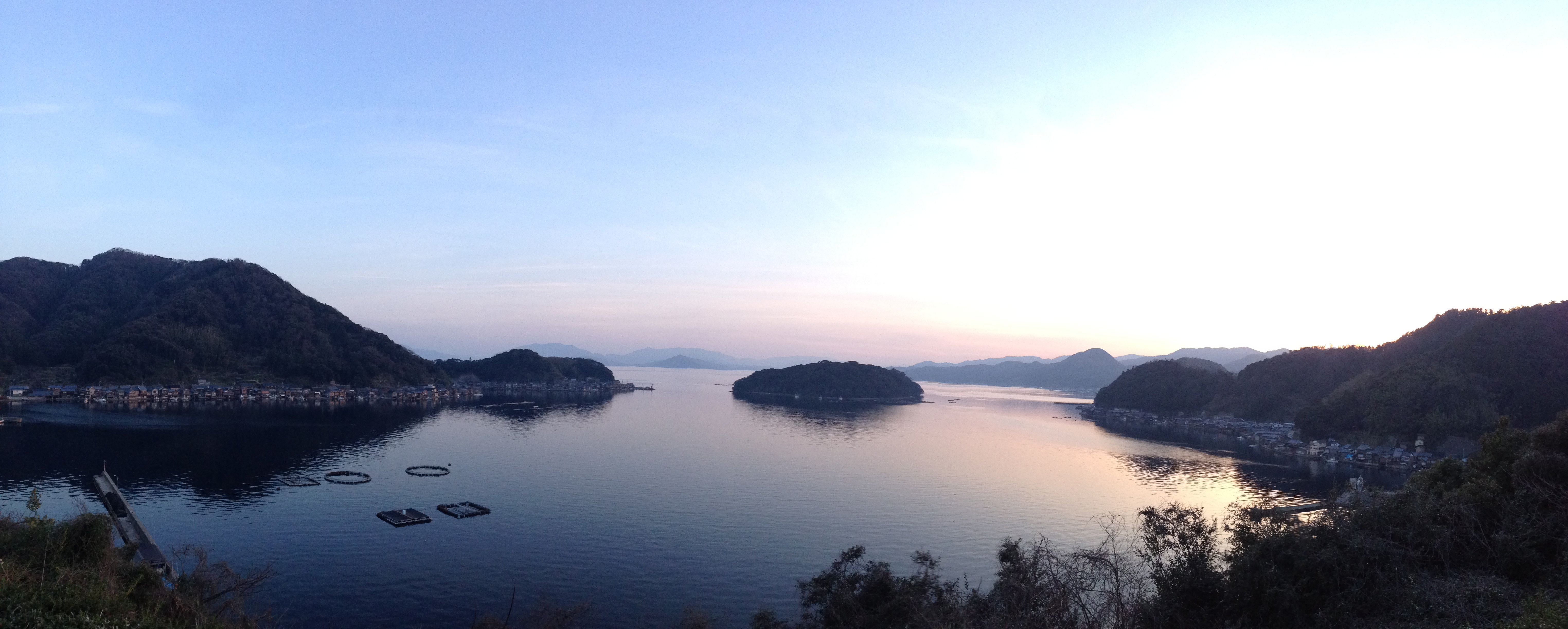 at Funaya-no-sato